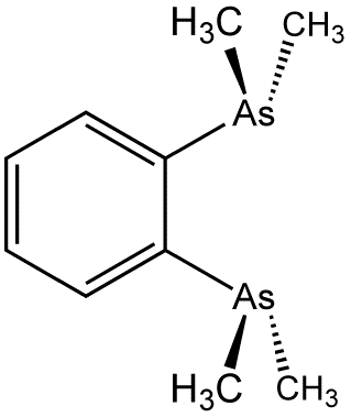 chemical structure of 1,2-bis(dimethylarsino)benzene